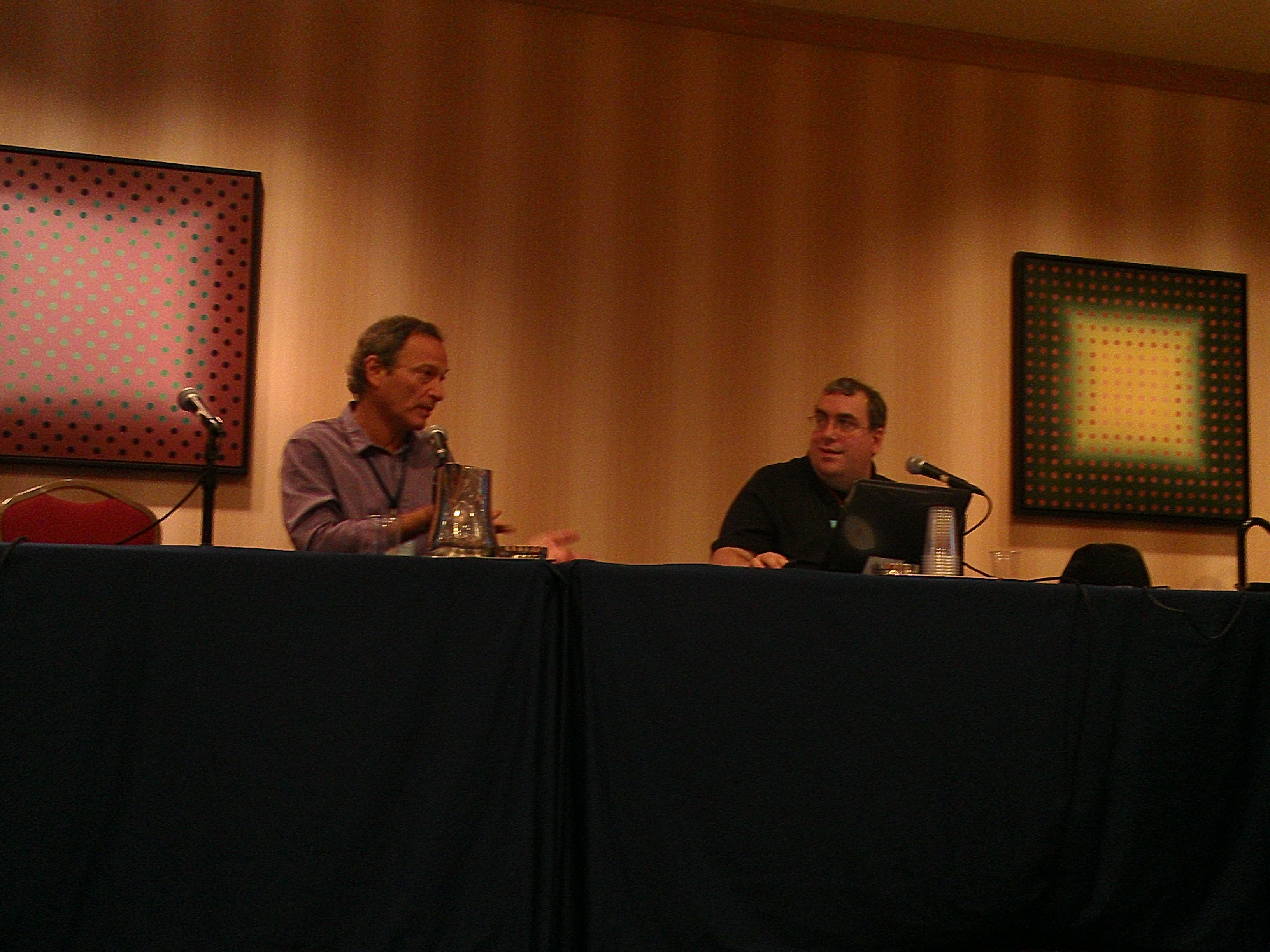 Drew Freidman and Rob Clough